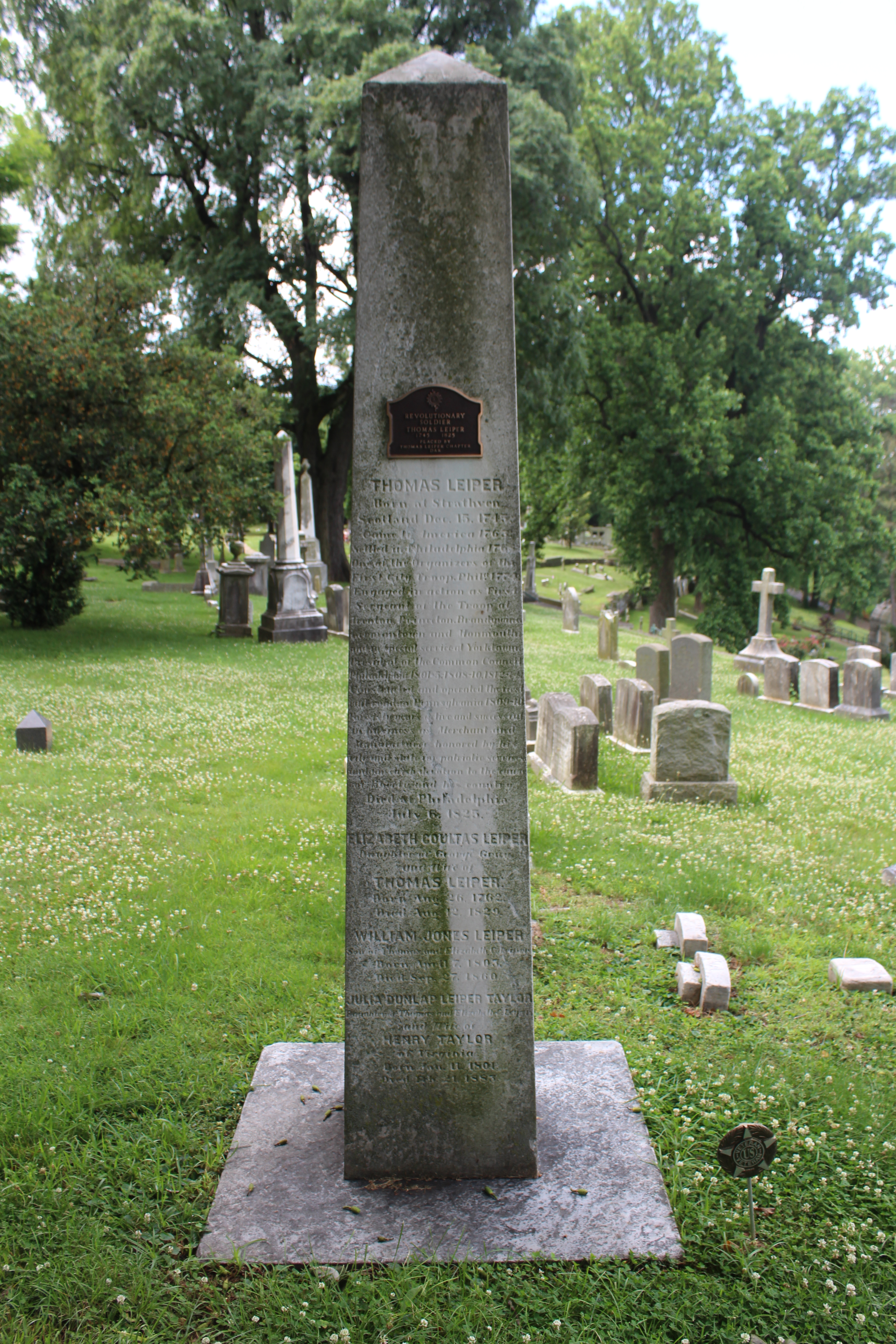 Thomas Leiper gravestone in Laurel Hill Cemetery. Photo taken June 2020.